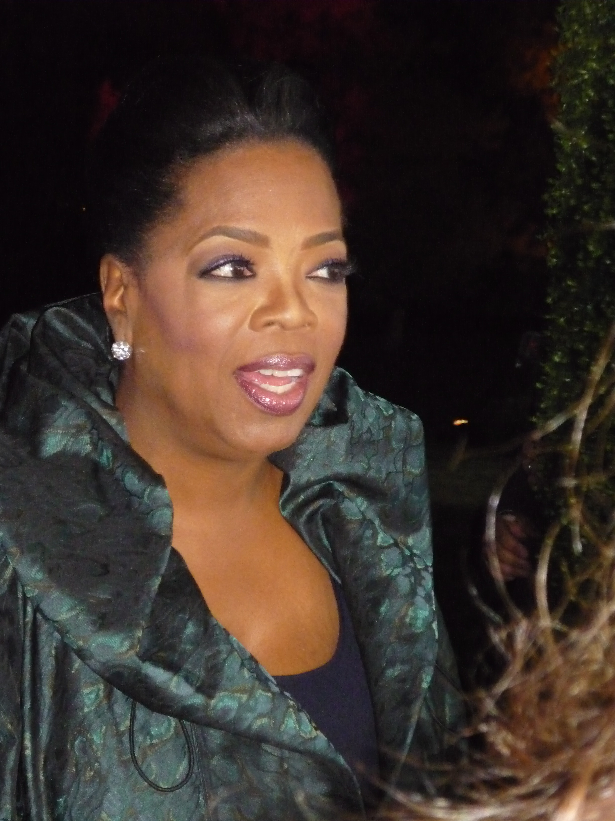 Oprah Winfrey at 2011 TCA